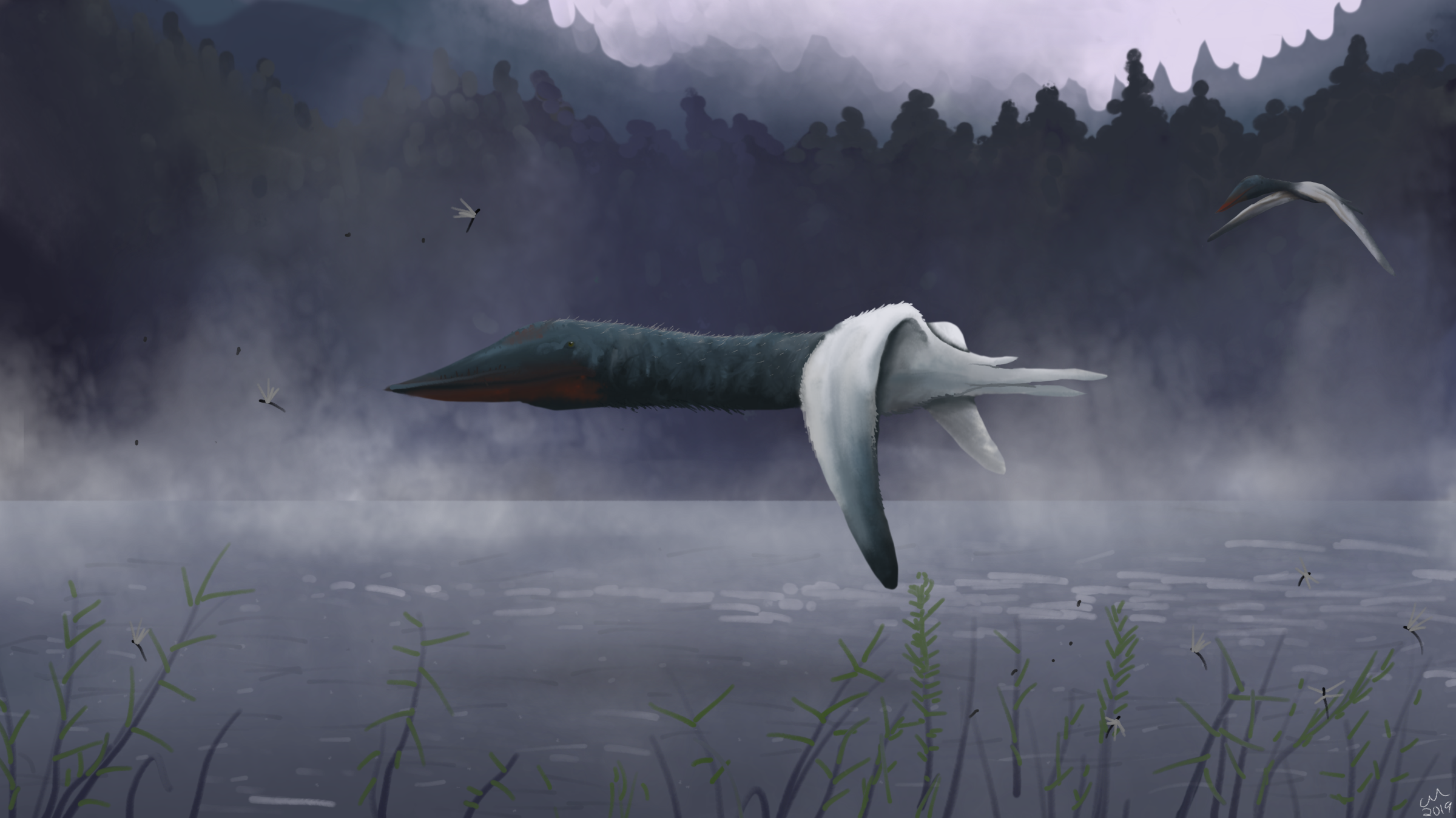 A pair of Azhdarcho flying low over a calm lake in the morning to catch insects, fish, turtles, and more.